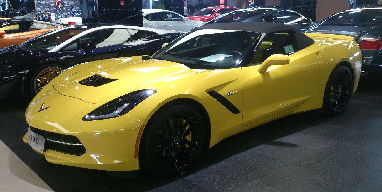 Chevrolet Corvette C7 Convertible photographed in Shanghai, China.